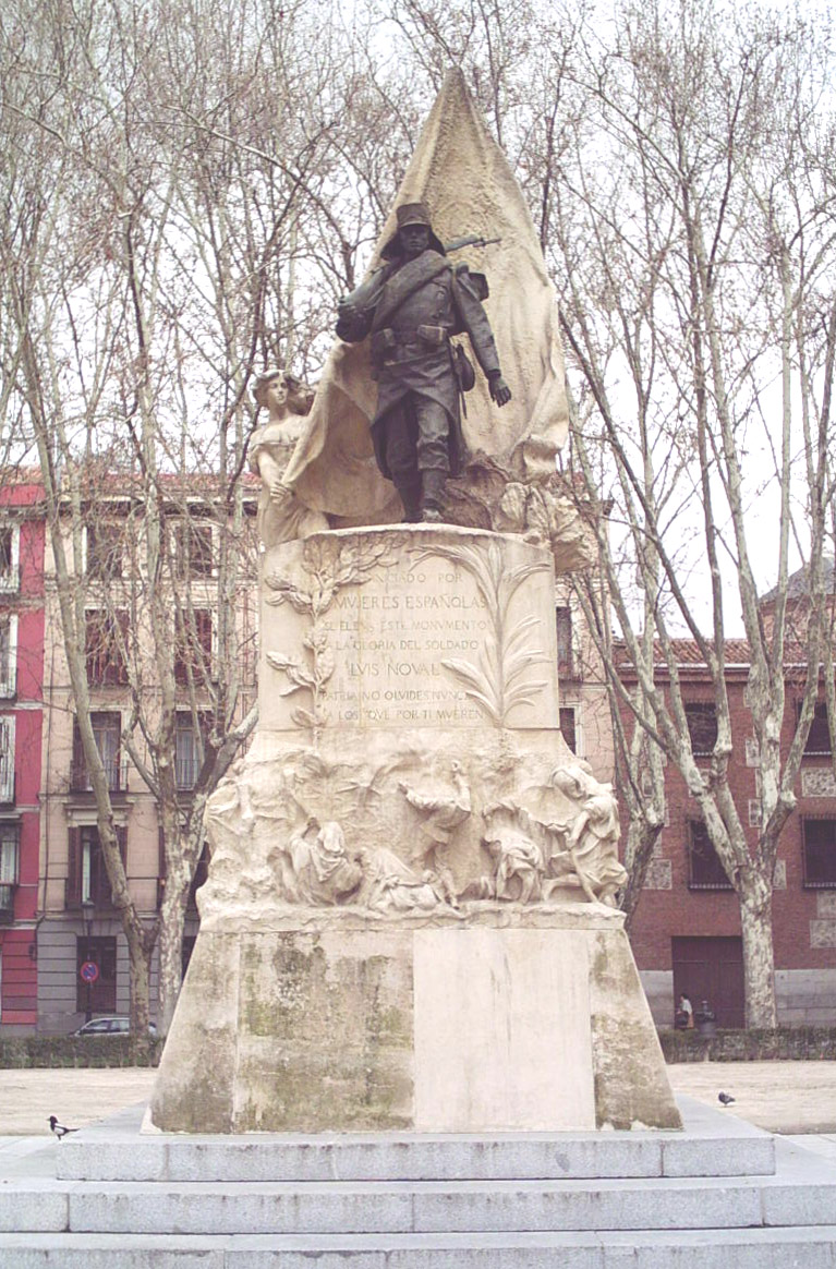 Monument to Corporal Luis Noval Ferrao (1887–1909) at the Plaza de Oriente (square) in Madrid (Spain). Made of bronze and stone by sculptor Mariano Benlliure (1862–1947) and inaugurated in 1912. Measurements: 6.50 x 3.00 x 3.00 metres.